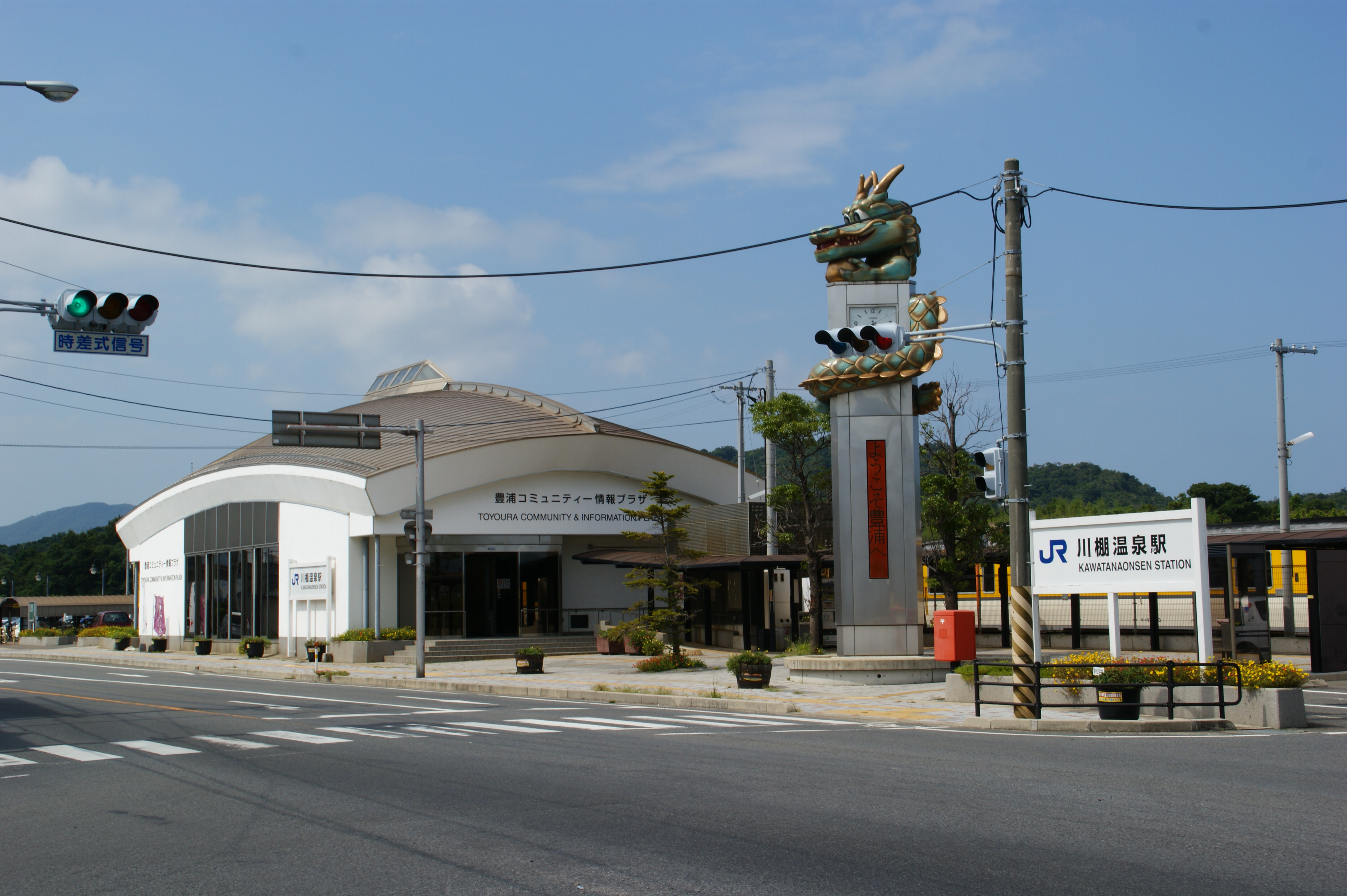 West Japan Railway, Kawatanaonsen Station (Shimonoseki City, Yamaguchi Prefecture, Japan)